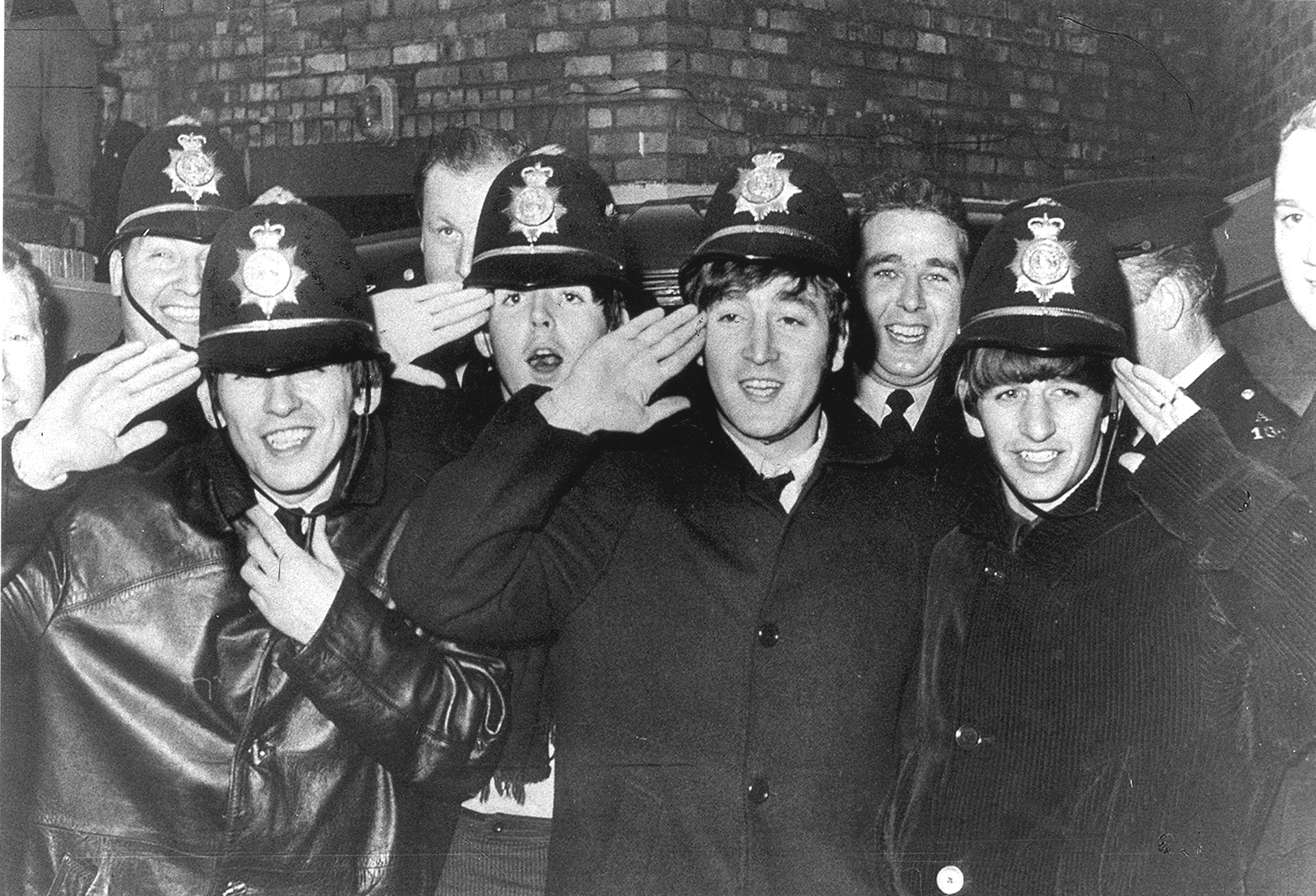 On the day that John Lennon would have been 72 years-old, our photo of the day shows him and the rest of the Beatles with Birmingham Police officers. The picture was taken outside the Birmingham Hippodrome in 1963 when the Beatles were smuggled into the venue in the back of a police van. PC Kerim Blakeman, father of serving Chief Inspector Kerry Blakeman (@kerryblakeman on Twitter) who provided the picture, is stood behind Paul McCartney.